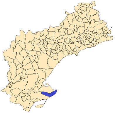 Sant Jaume d'Enveja